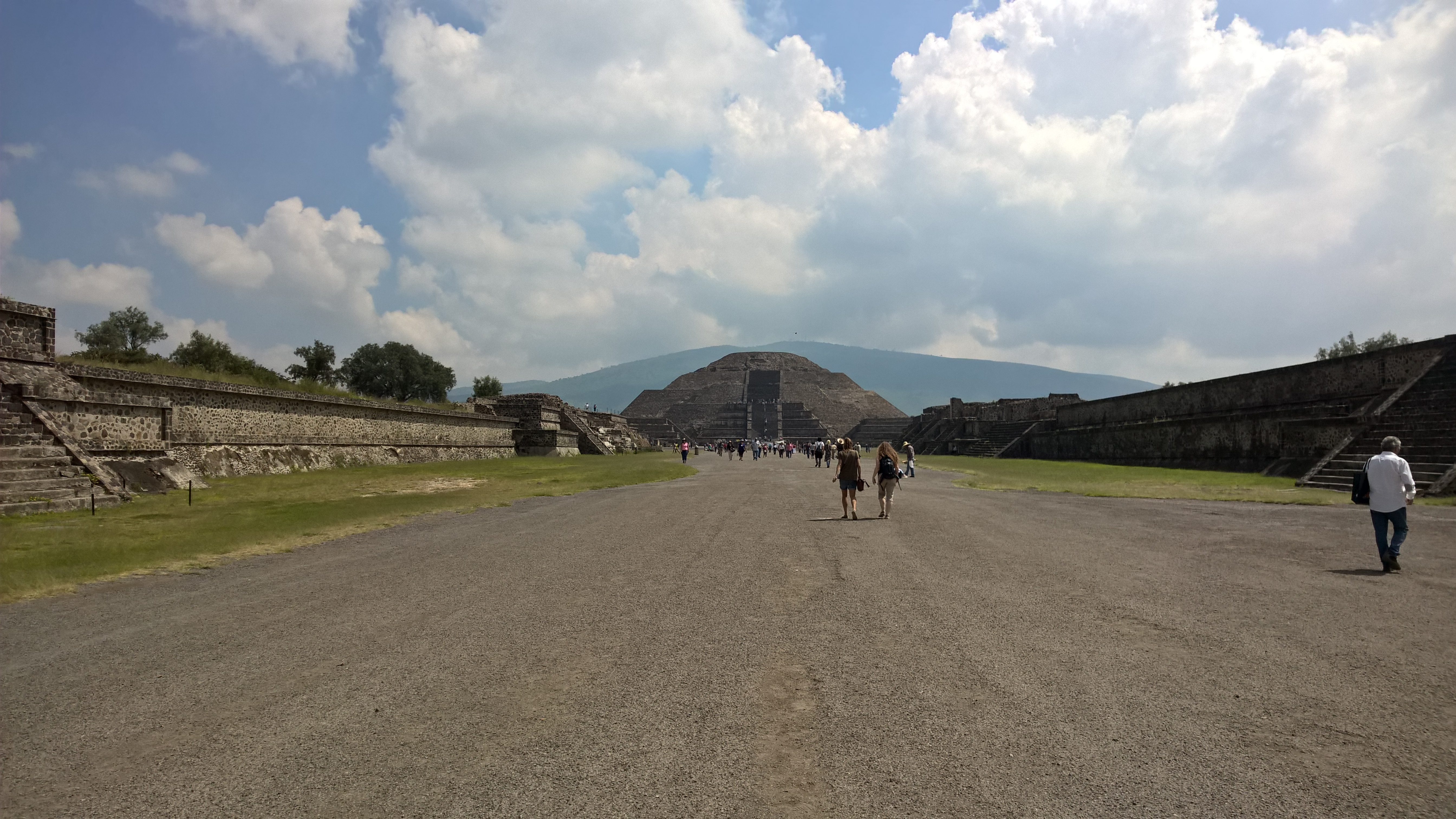 Avenue of the Dead at Teotihuacan, with the Pyramid of the Moon in the background. Nāhuatl: Miccaohtli ihuan Mētztli tlamanacalli, Teōtīhuahcān